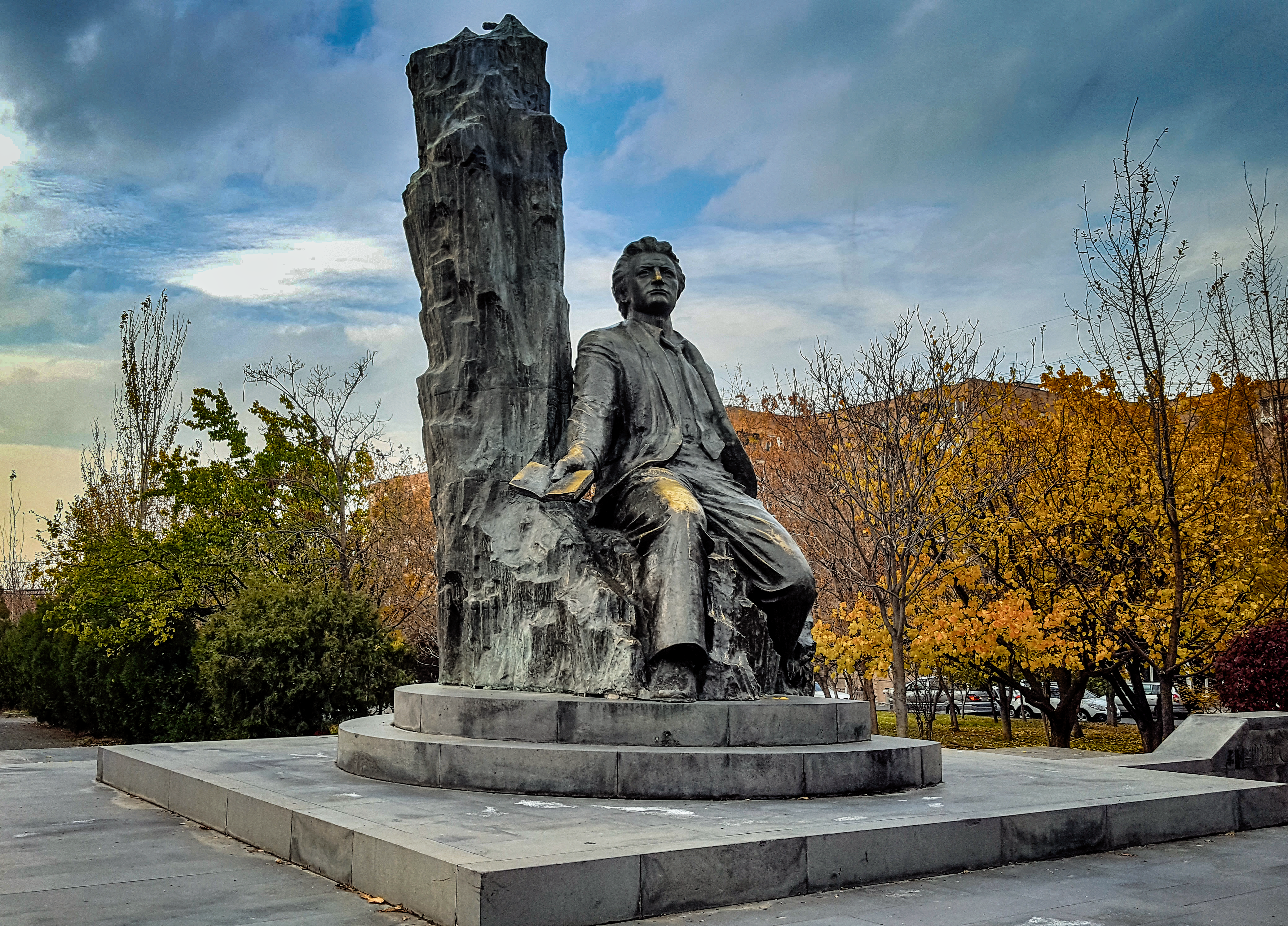 The statue of Hovhannes Shiraz is located in the Malatia-Sebastia district of Yerevan. The authors of the statue are architect Ashot Smbatyan, sculptor Ara Shiraz.